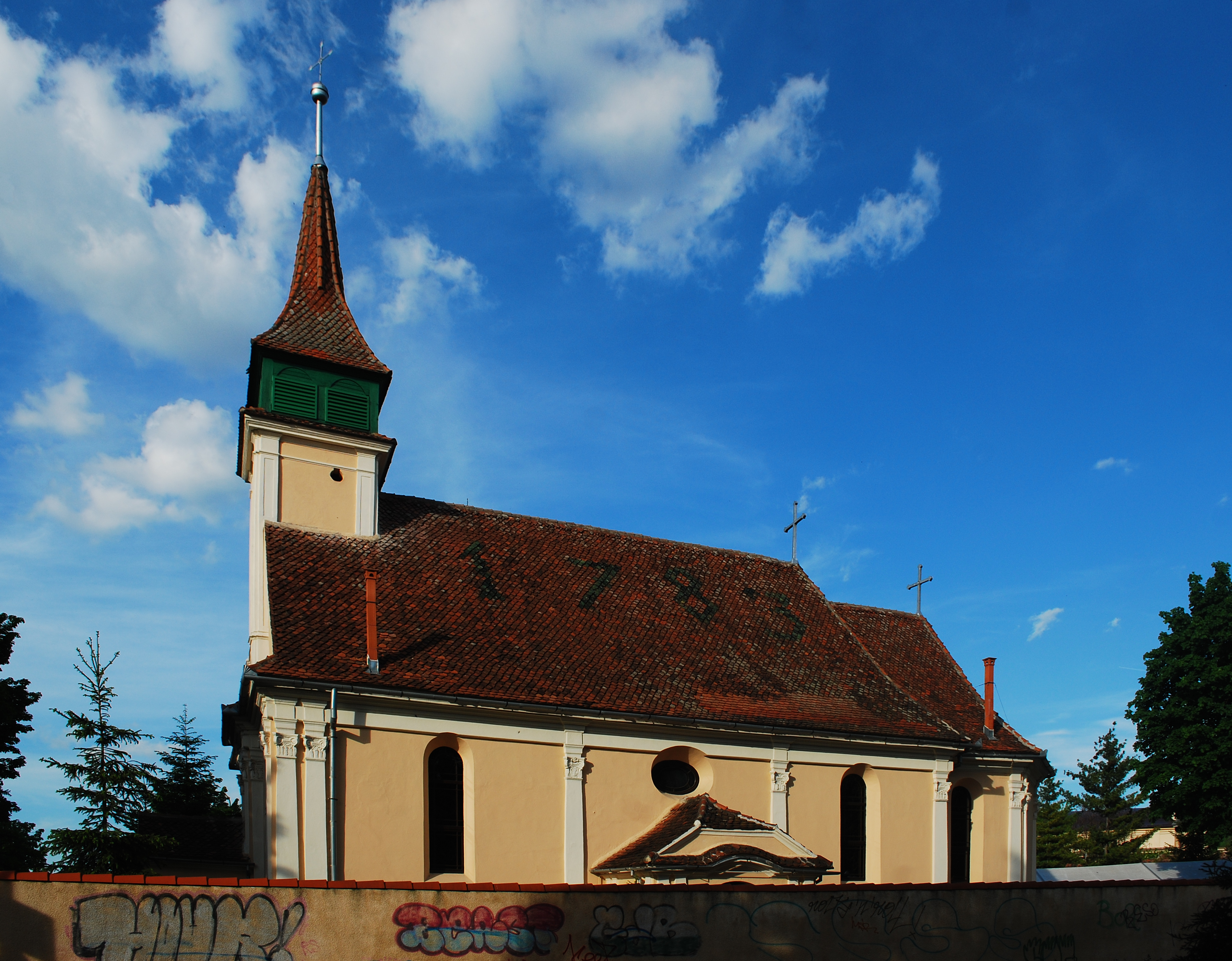 Hungarian Lutheran church in Blumana, Brasov